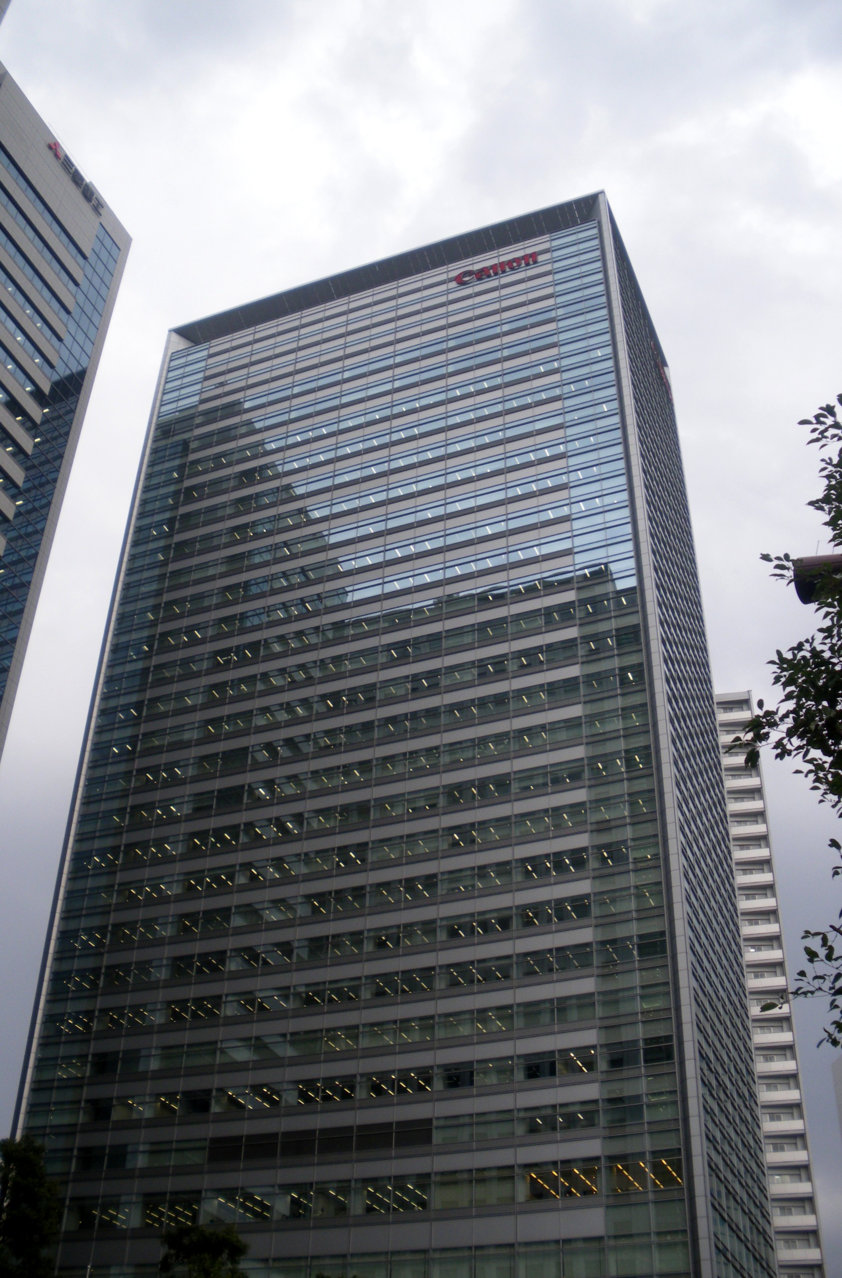 A photo of Canon S Tower at Shinagawa Grandcommons, Konan, Minato-ku, Tokyo, Japan.